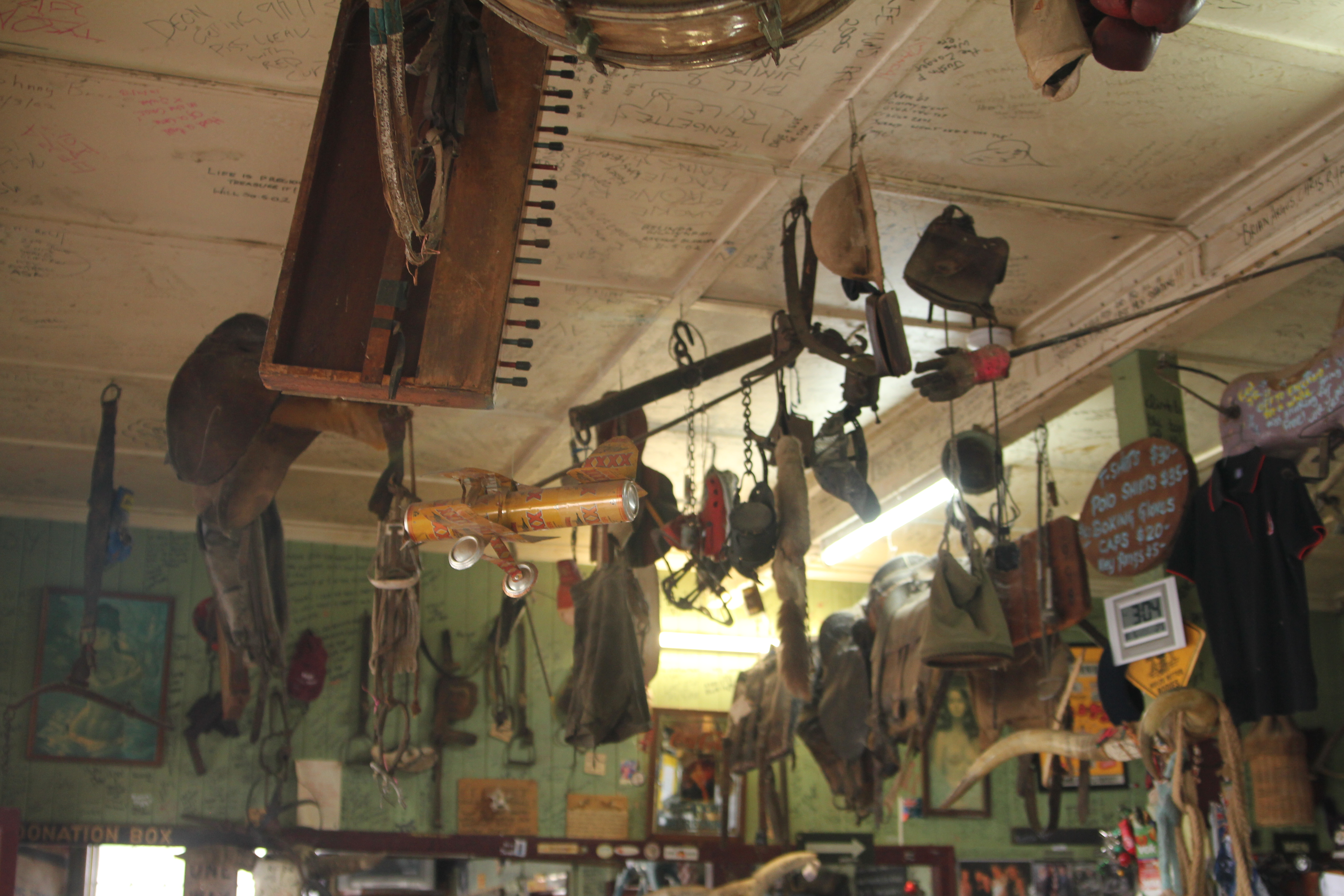 The Cracow Hotel attracts a lot of tourists due to its unusual array of strange artifacts adorning the ceilings and walls. This is the stuff that hangs directly over the bar, including lots of relicts from yesteryear as well as an aeroplane made from XXXX beer cans.